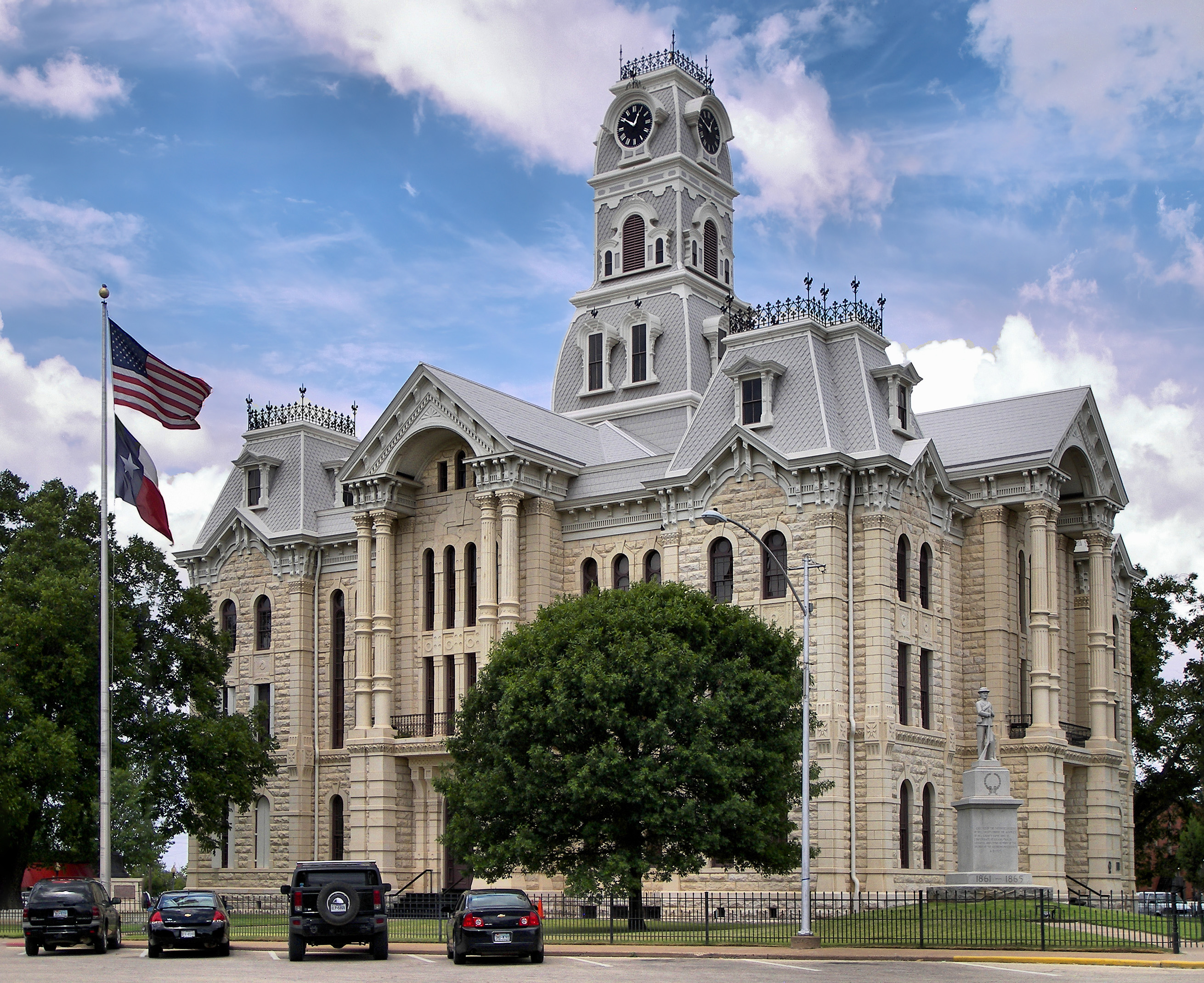 The Hill County Courthouse in Hillsboro, Texas, United States. The Second Empire style building was designated a Recorded Texas Historic Landmark in 1964 and listed on the National Register of Historic Places on June 21, 1971.